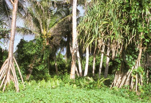 Pandanus and other strand vegetation on Merir Island, Southwest Islands of Palau. Original field note: Beautiful, undisturbed strand (coastal) vegetation, Merir Island. On Merir were two species of pandanus (undetermined), one with small fruit, another, inland with large fruit. The primary trees in Merir's strand were Barringtonia speciosa (asiatica), Scaevola taccada, Neisosperma oppositifolia, Terminalis samoensis, Calophyllum inophyllum, Hernandia nymphaefolia, and Pandanus species